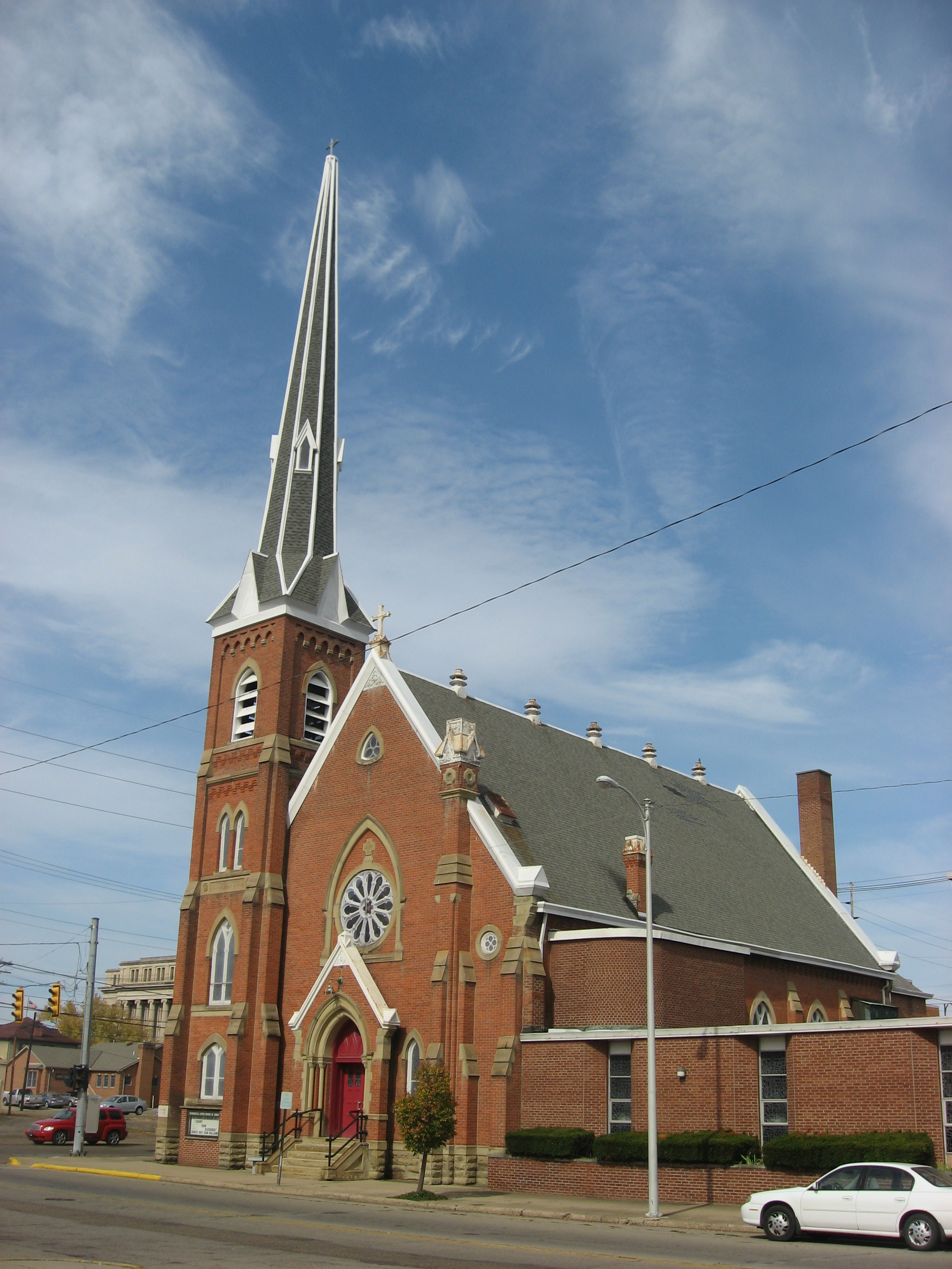 Front of the former Evangelical Church of Christ, now a United Church of Christ congregation located at 701 Fifth Street in Portsmouth, Ohio, United States. Built in 1886, it is listed on the National Register of Historic Places.